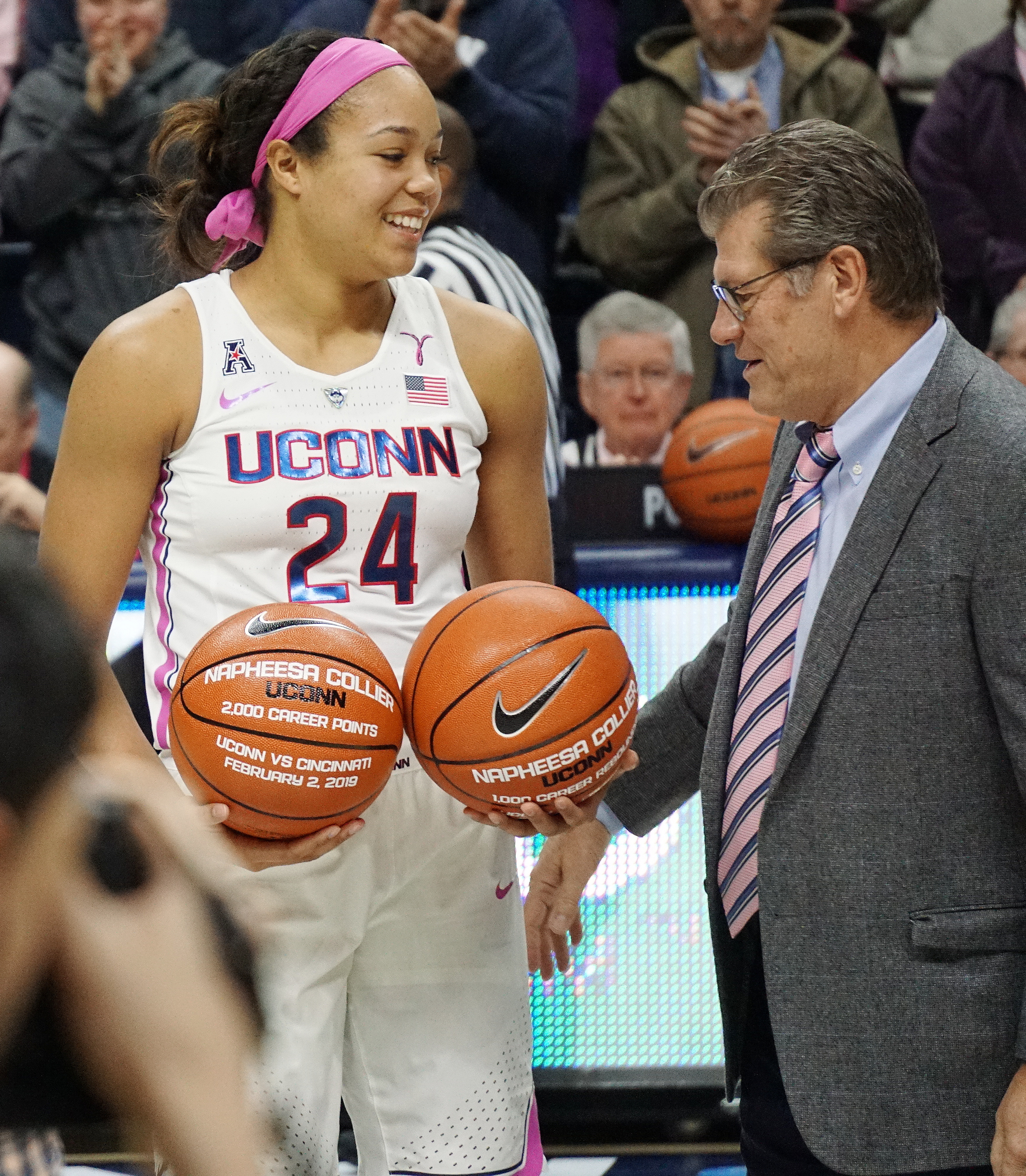 Naphessa Collier, being presented with awards honoring her for achieving 2000 career points in the game held on 2 February 2019 against Cincinnati and 1000 career rebounds in the previous game against Louisville from her coach Geno Auriemma